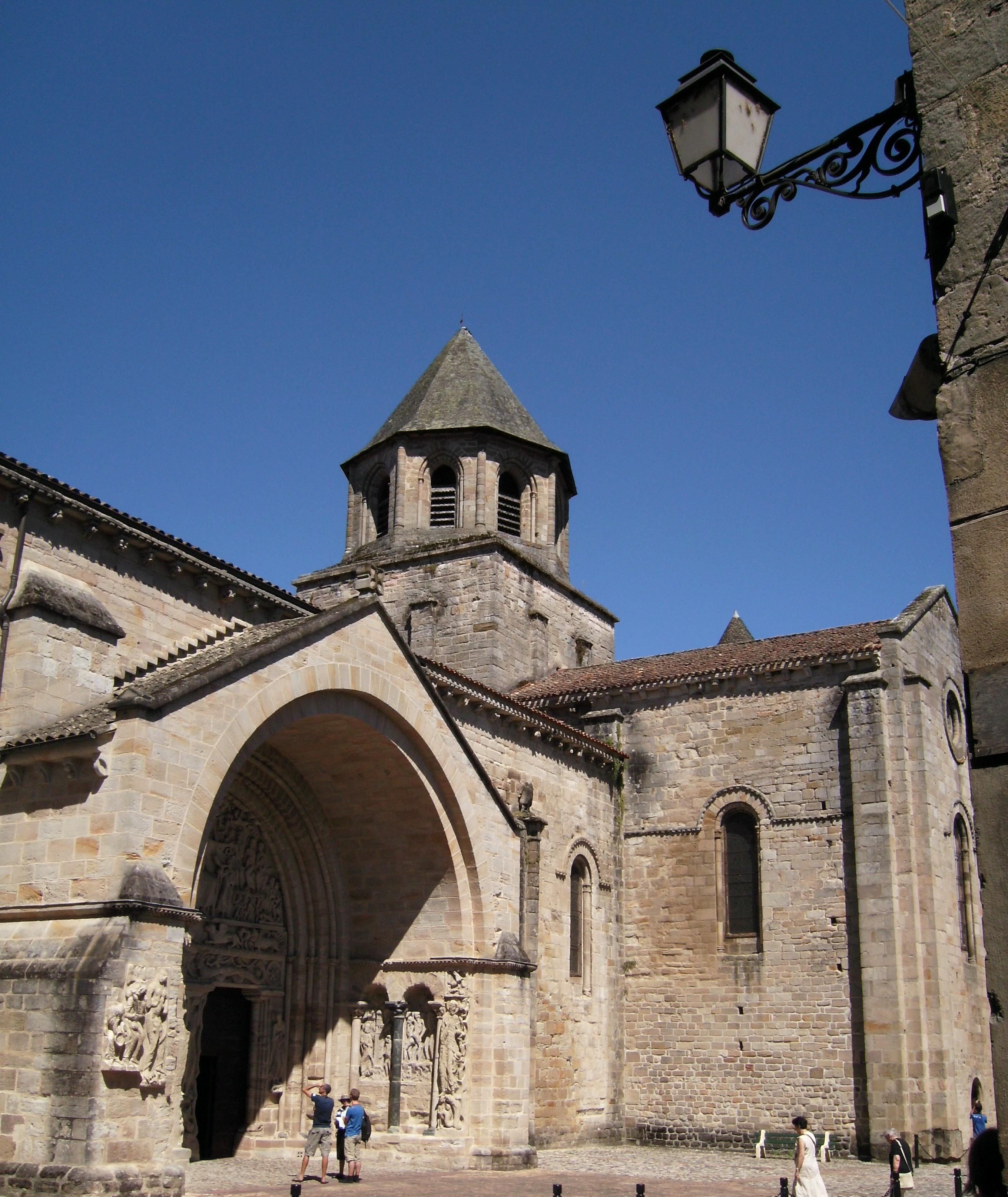 Southern portal of the abbey church of Beaulieu-sur-Dordogne, Limousin, France.